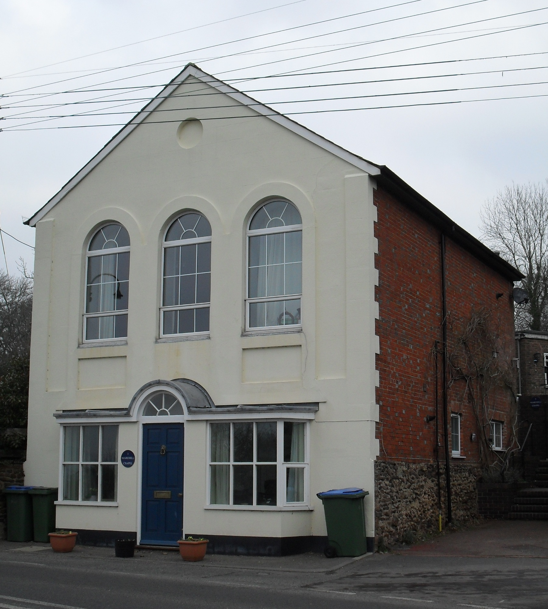 Former Providence Congregational Chapel, Marehill, Pulborough, District of Horsham, West Sussex, England. Built in 1845 and replaced by a new church in 1947.